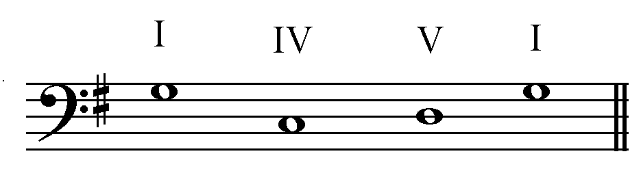 Roots of a perfect cadence in G: G-C-D-G = I-IV-V-I.